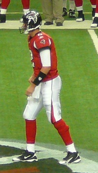 If used somewhere other than Wikipedia, Nelson, by name.